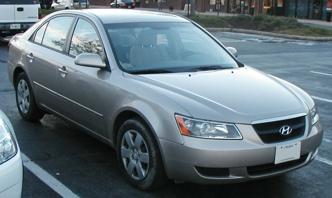 2006-2007 Hyundai Sonata photographed in USA.